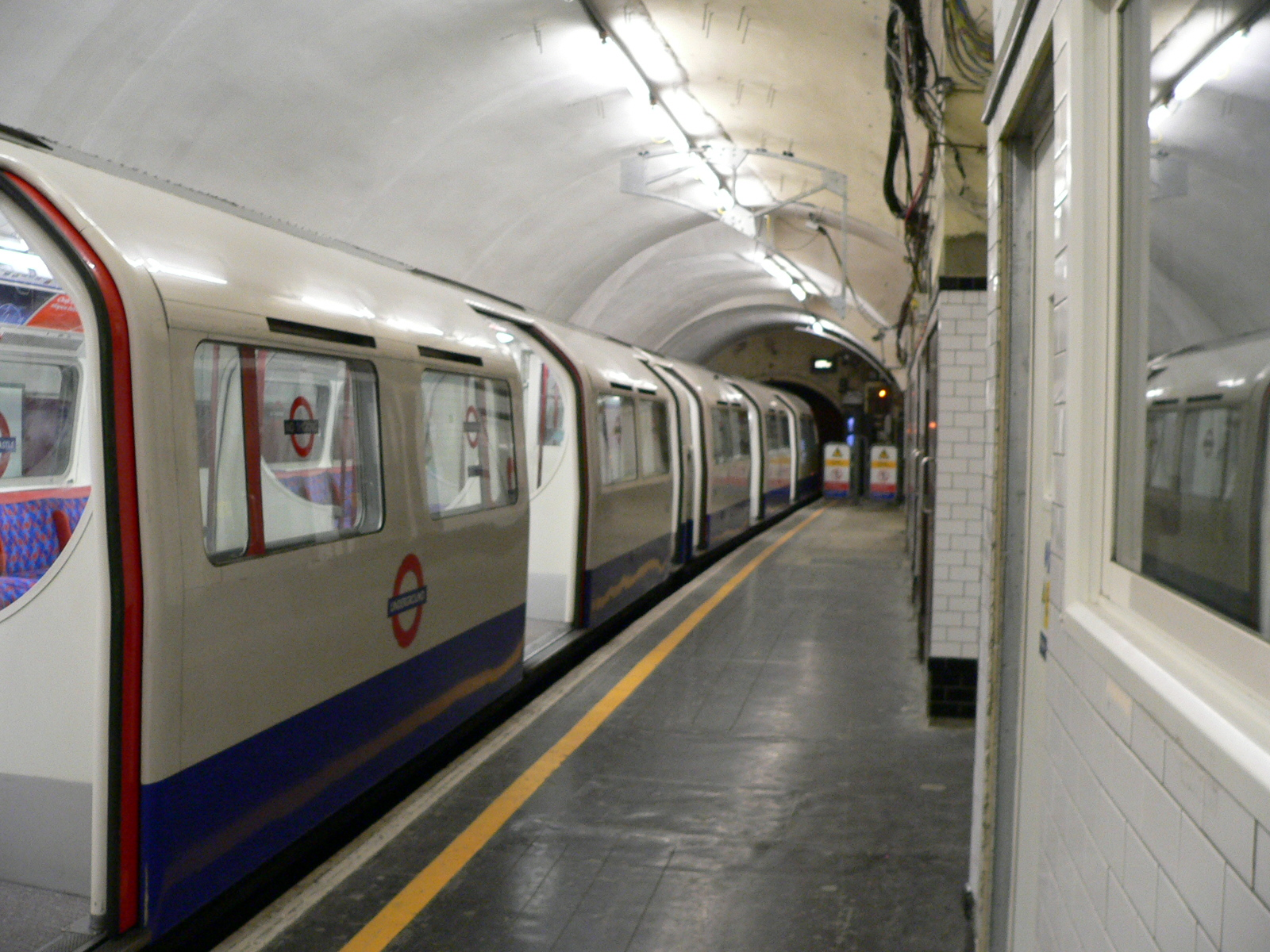 One of the two Bakerloo Line platforms at Elephant & Castle tube station. If the Bakerloo Line were ever extended southwards from its current terminus here then this platform would become the one for northbound services.